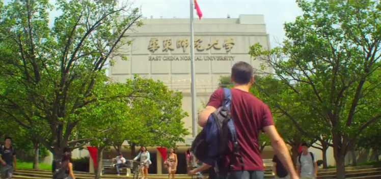 A screenshot from the movie Game of Pawns, produced by the FBI, the spy Glenn Duffie Shriver was in front of the main entrance to the East China Normal University in Shanghai during his first visit in China.